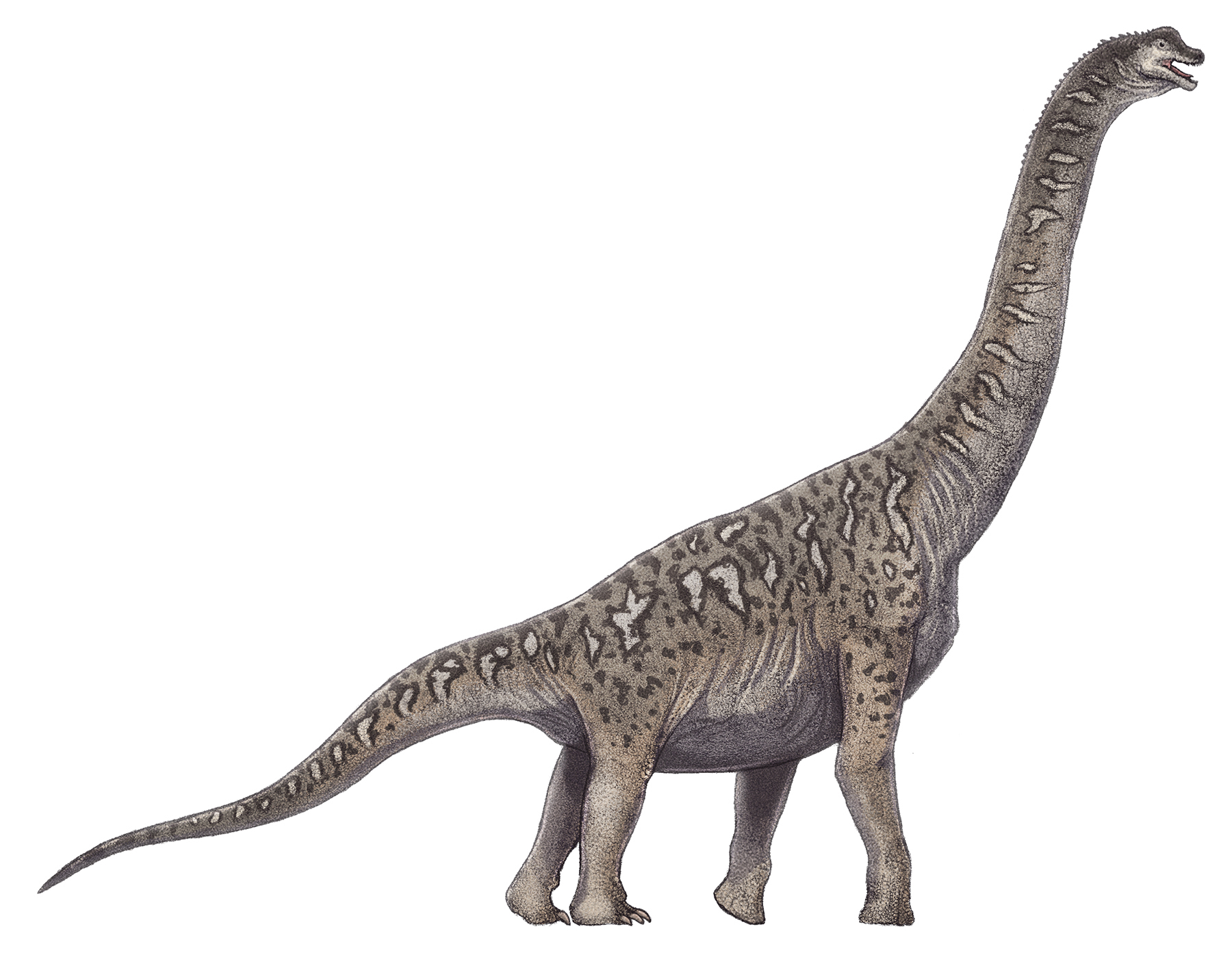 Life restoration of Soriatitan golmayensis.